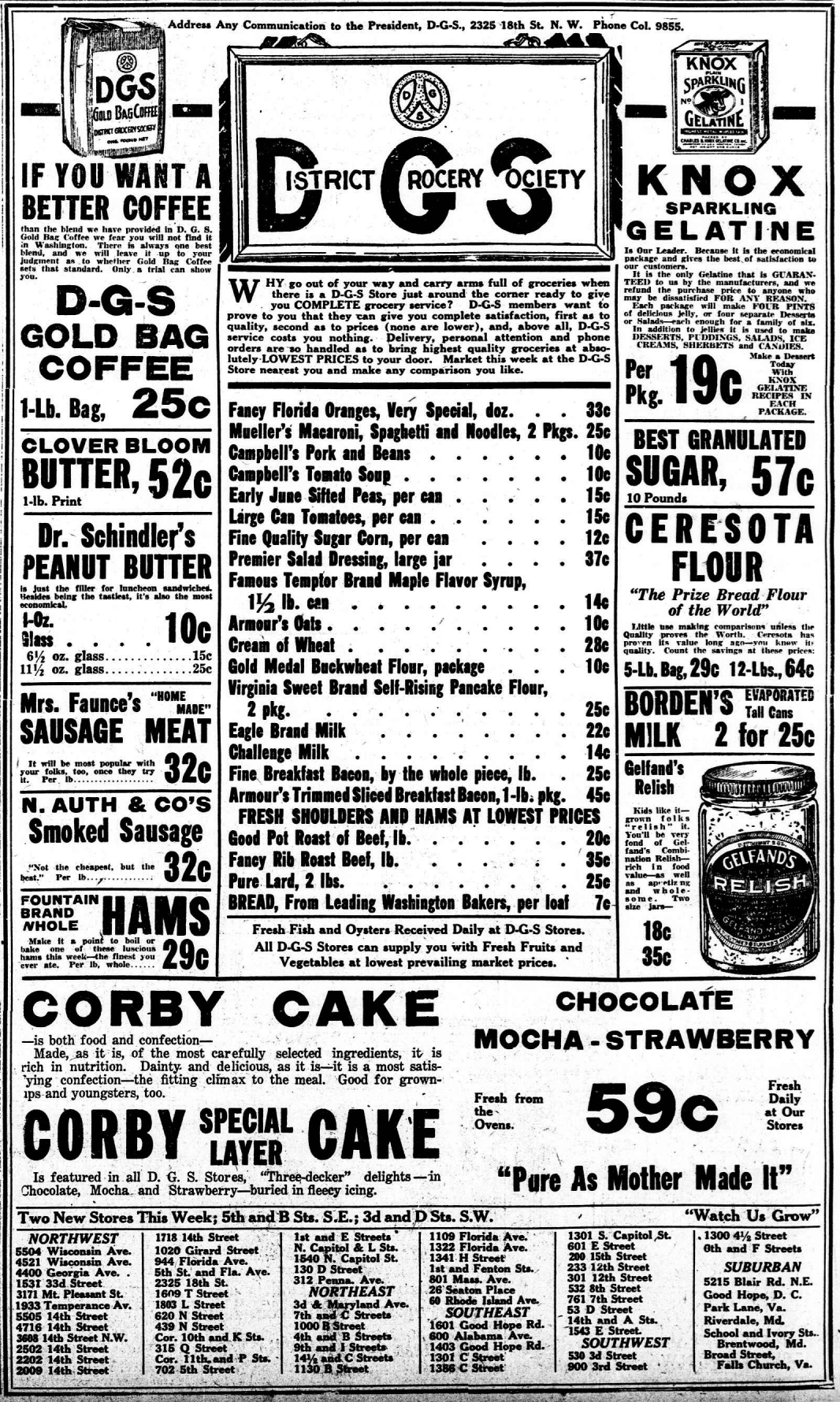 District Grocery Stores Advertisement published in the Evening Star (Washington, DC) on November 11, 1921 on page 32